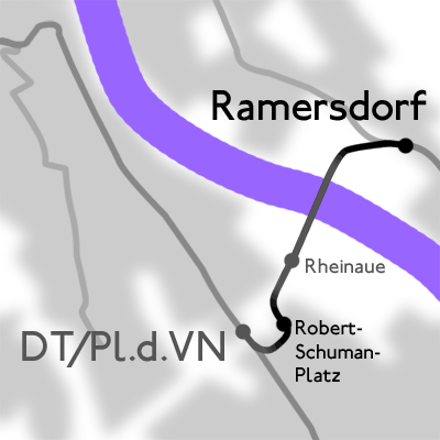 Bonn – light railway (urban railway) line at the Rheinaue park – Platz der Vereinten Nationen–Rheinaue–Ramersdorf. See Stadtbahn Bonn/Rheinaue for further pictures of this section